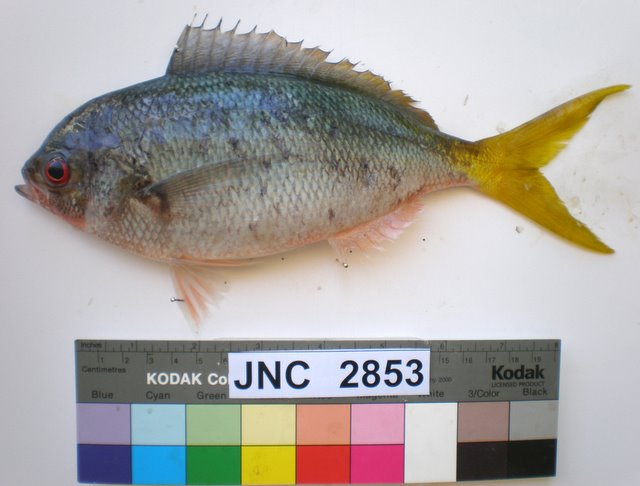 Caesio cuning from off New Caledonia. Locality: Fish market, Nouméa, New Caledonia. Fork length 220 mm, Weight 216 grams. Date 2008/12/16.